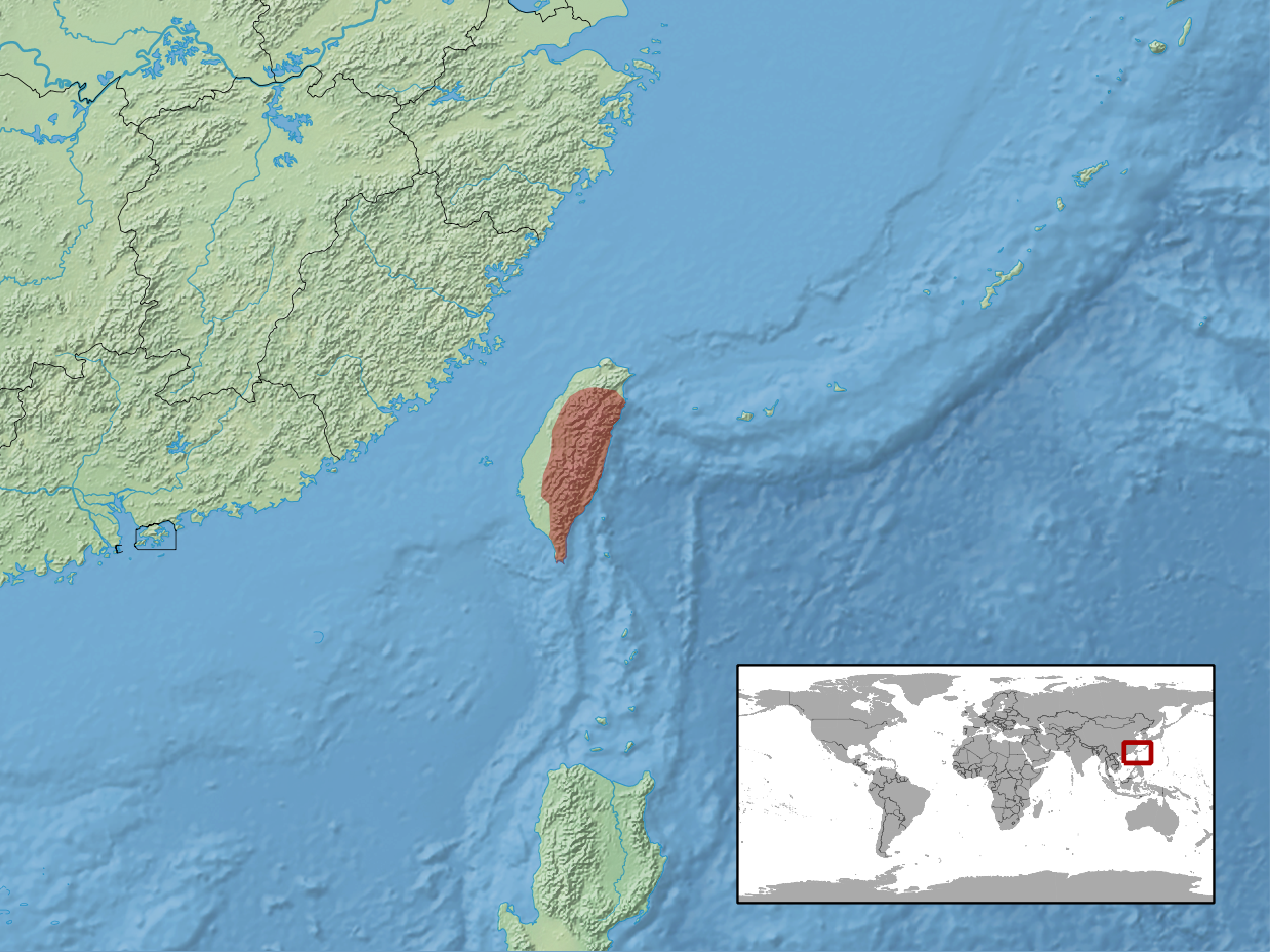 geographic distribution of Achalinus niger (Native: Taiwan, Province of China)